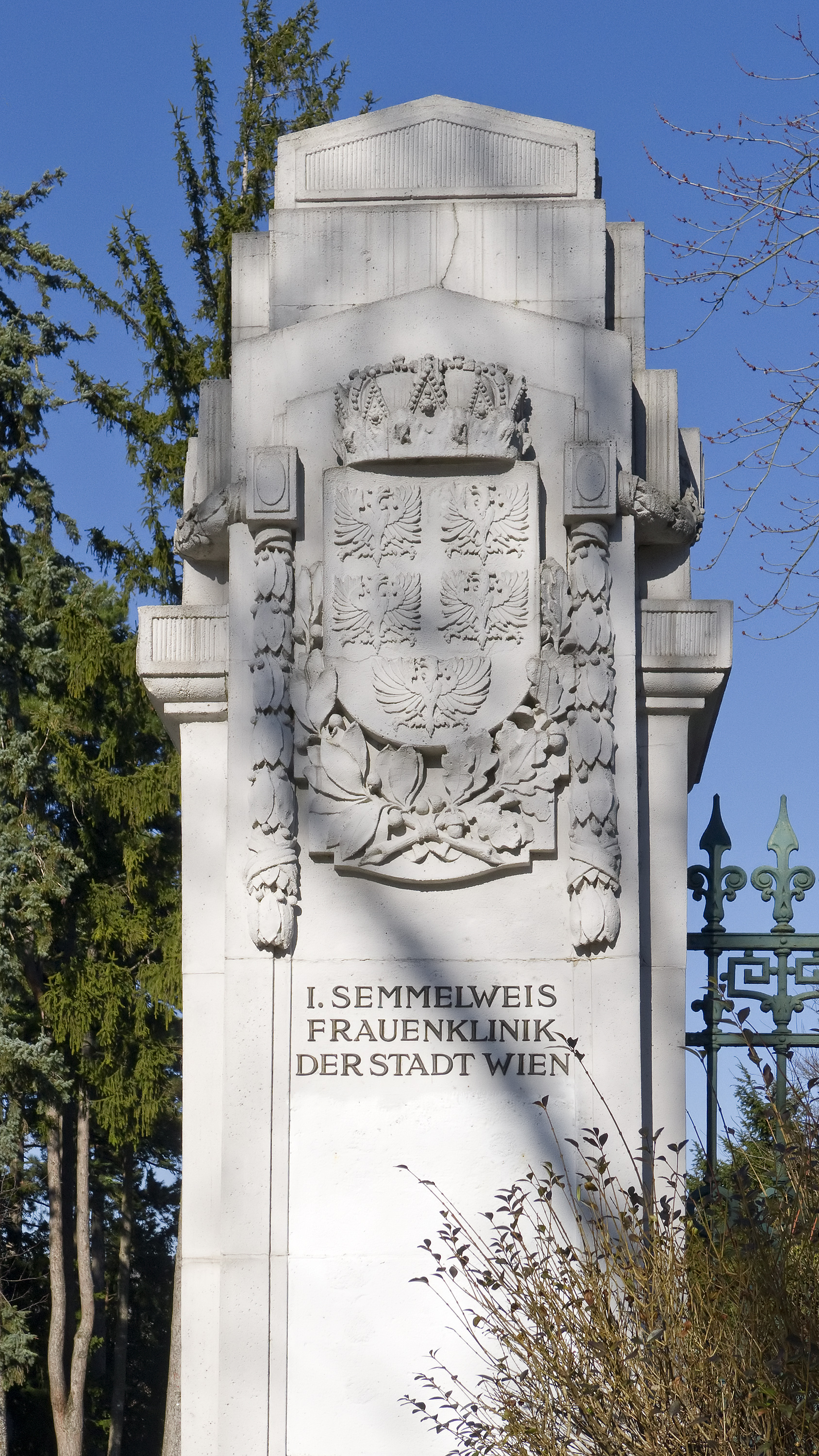 Hospital Semmelweis-Frauenklinik in Vienna Währing